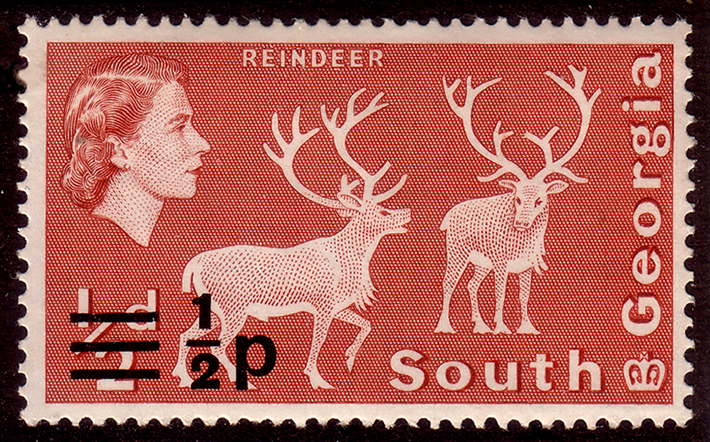 Postage stamp of South Georgia, 1/2d, reindeer, 1963 design, surcharged 1/2p in 1971, scott#17.